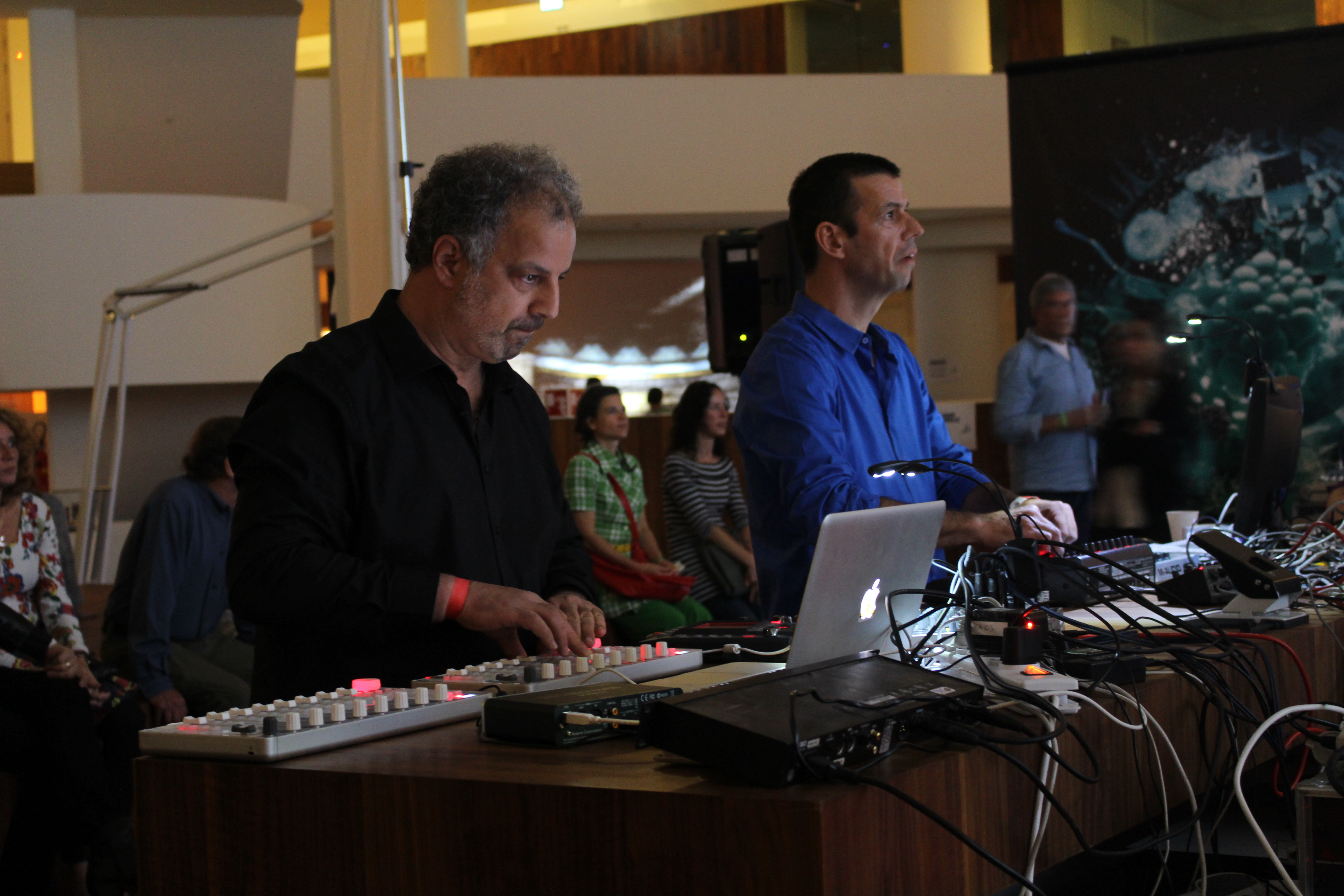 at New Horizon Festival